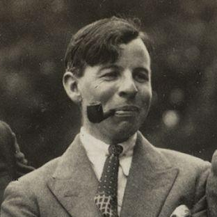 Extracted from Igor Vinogradoff; Gilbert Spencer; Walter James Redfern Turner; Mark Gertler, by Lady Ottoline Morrell (died 1938).